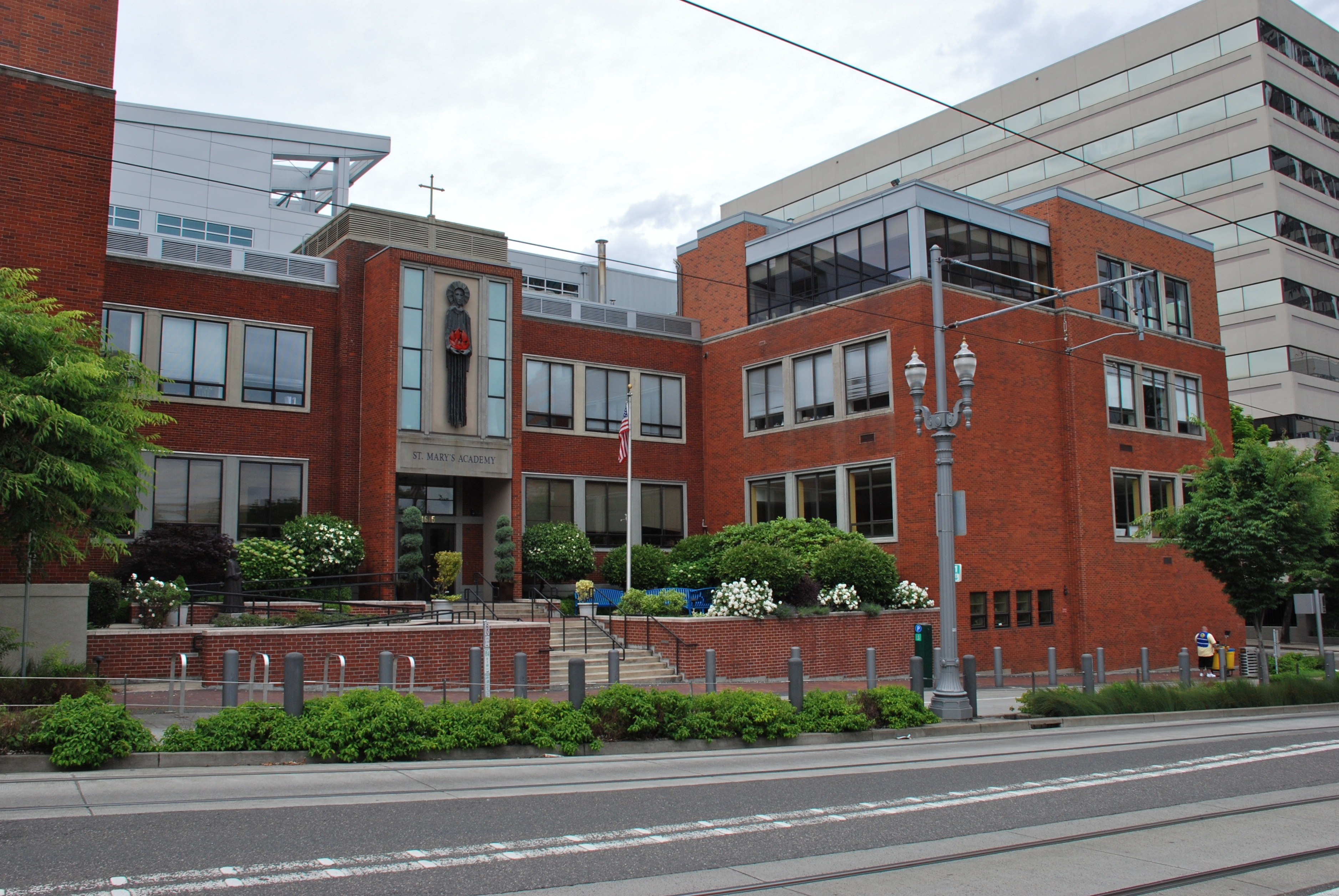 The front of St. Mary's Academy, in Portland, Oregon, on S.W. 5th Avenue between Market and Mill streets.